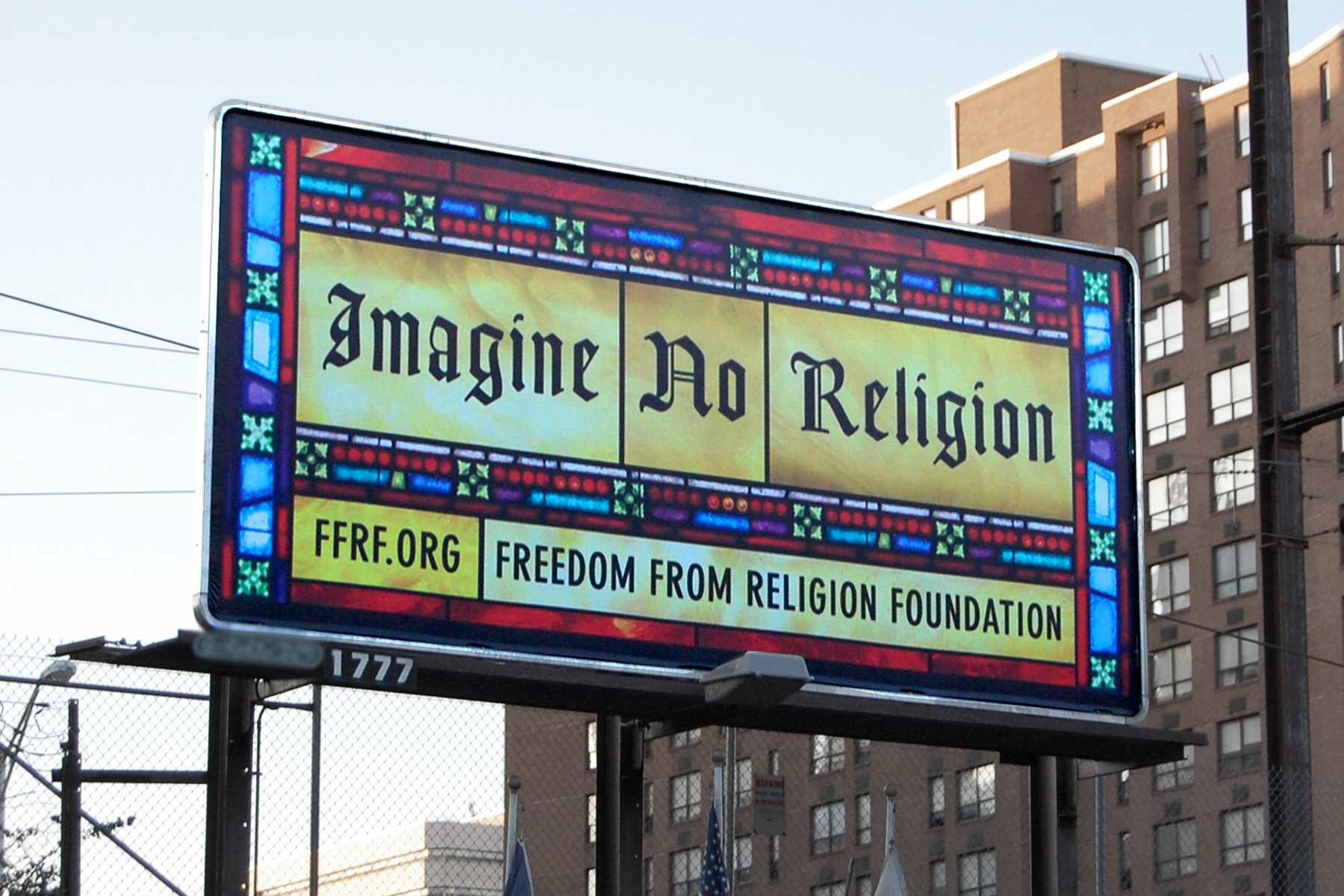 Freedom From Religion Foundation got this sign put up on busy 2nd Street in Harrisburg, PA. Hopefully it gets through to some people.